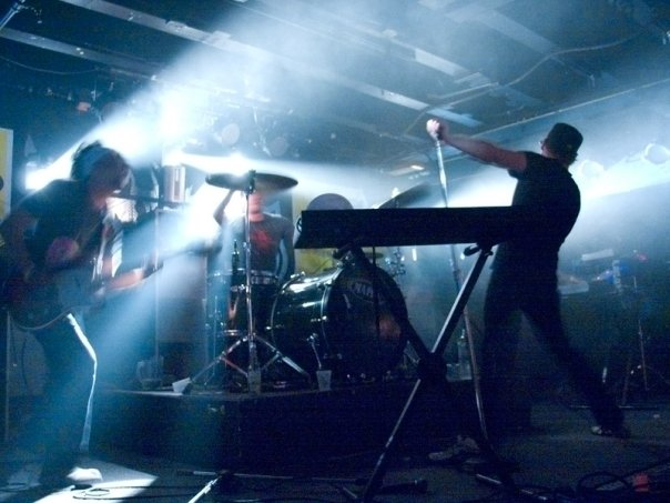 Innerpartysystem performing at TNT Bar in Clinton Township, Michigan on September 11, 2008.